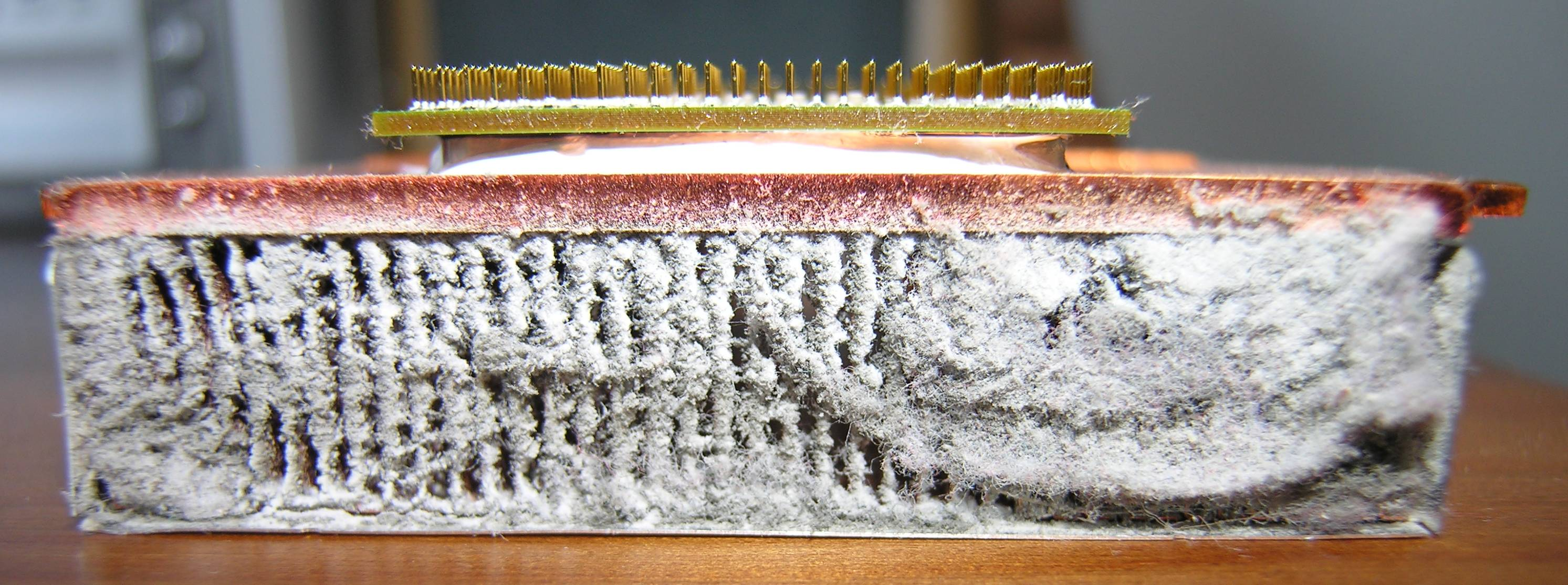 The dust on the laptop CPU heat sink after three years of use has made the laptop unusable due frequent thermal shutdowns. By Audrius Meskauskas, Audriusa 13:25, 30 January 2006 (UTC)